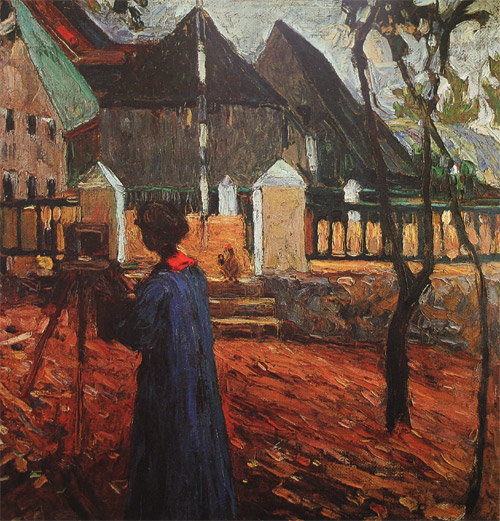 Gabriele Munter painting, oil on canvas 58,5х58,5 sm, Städtische Galerie im Lenbachhaus und Kunstbau, München, Germany.